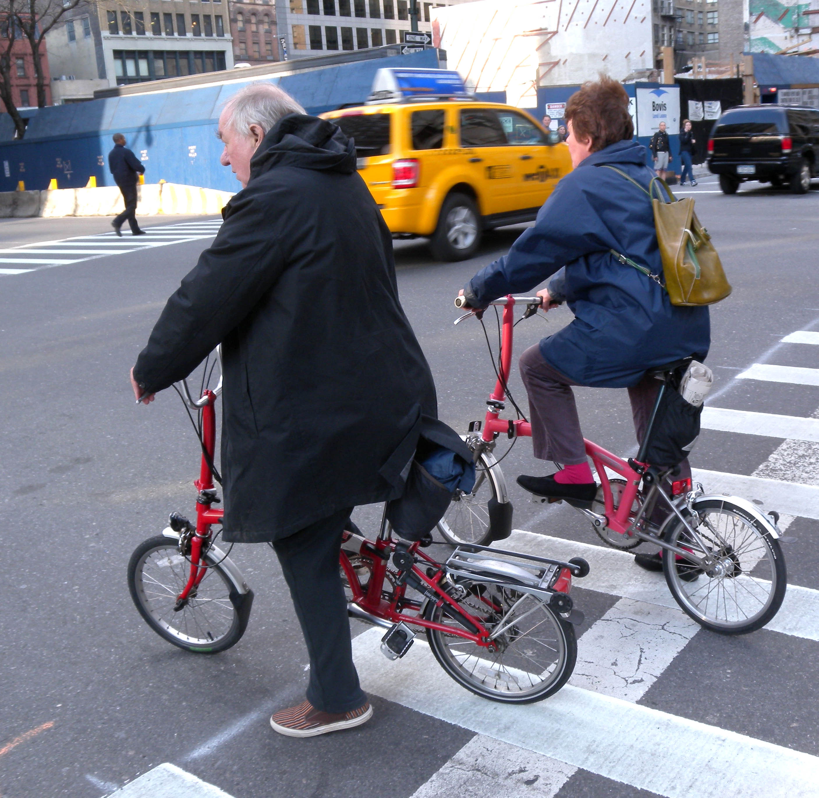 Looking northeast as two red Brompton Bicycles wait for a signal to proceed up 10th Avenue on a partly sunny late afternoon.